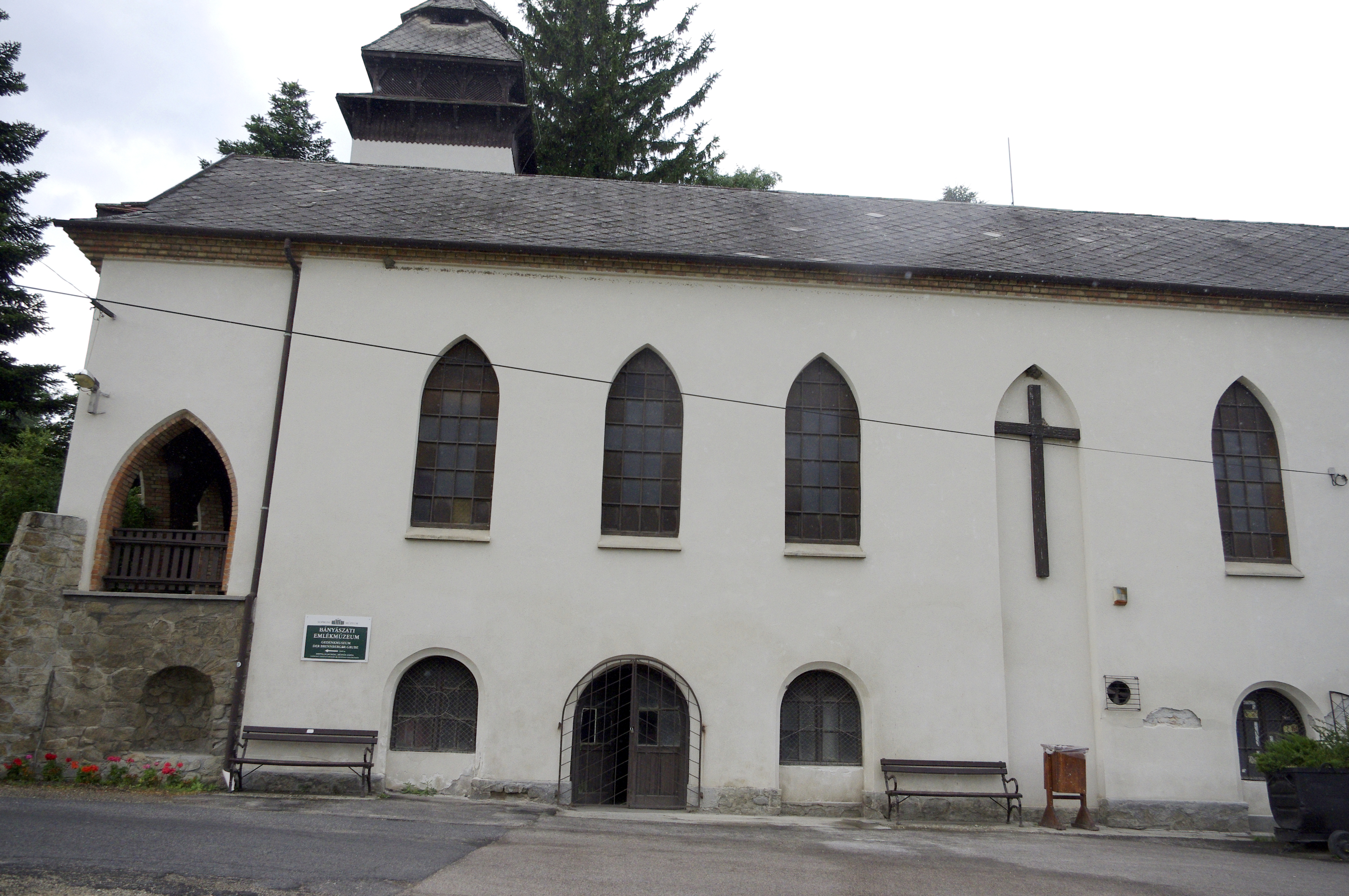 Brennbergbánya, Hungary